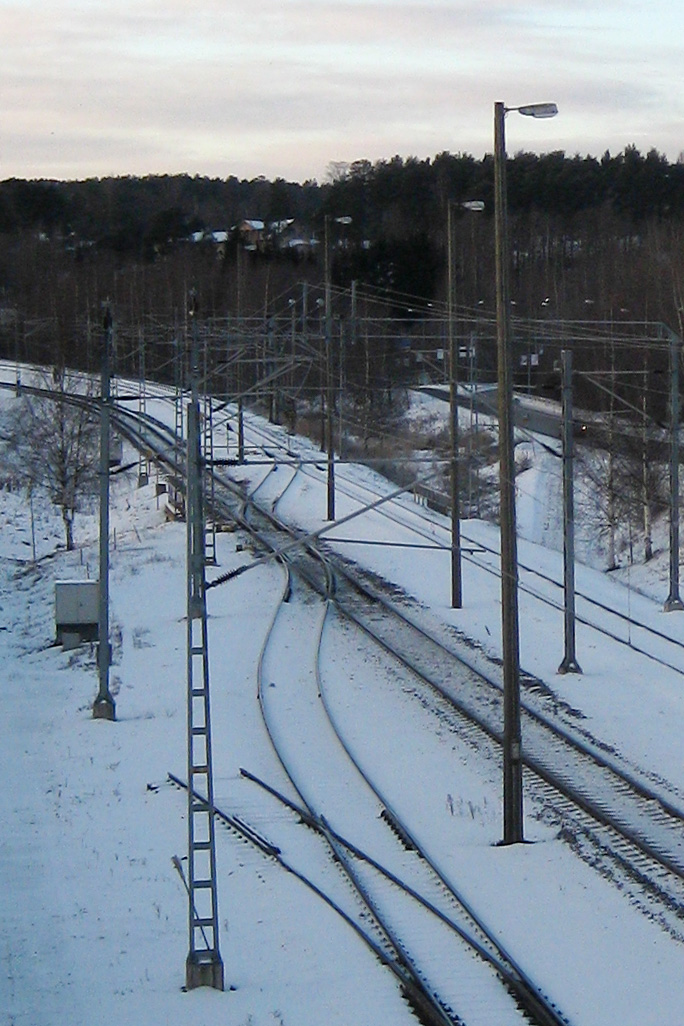 Switches at the southern end of Jyväskylä railyard. Top track is to Haapamäki, Lower to Jämsä.